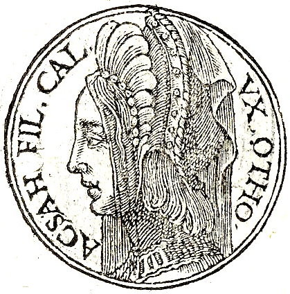 Achsah - "anklet", was Caleb ben Yefune's only daughter (1 Chr. 2:49).